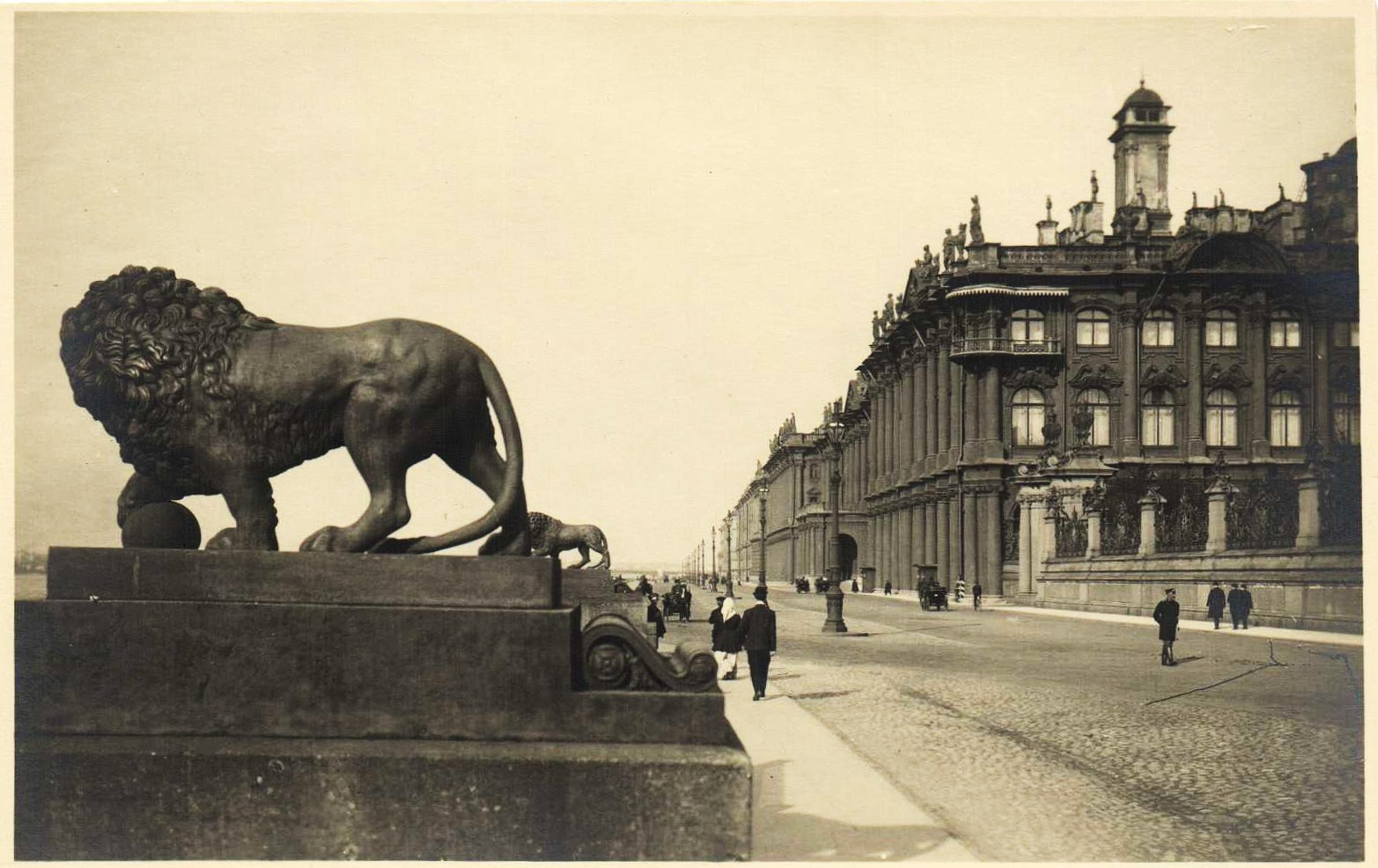 View of the Dvortsovaya pier in 1902-1914 years